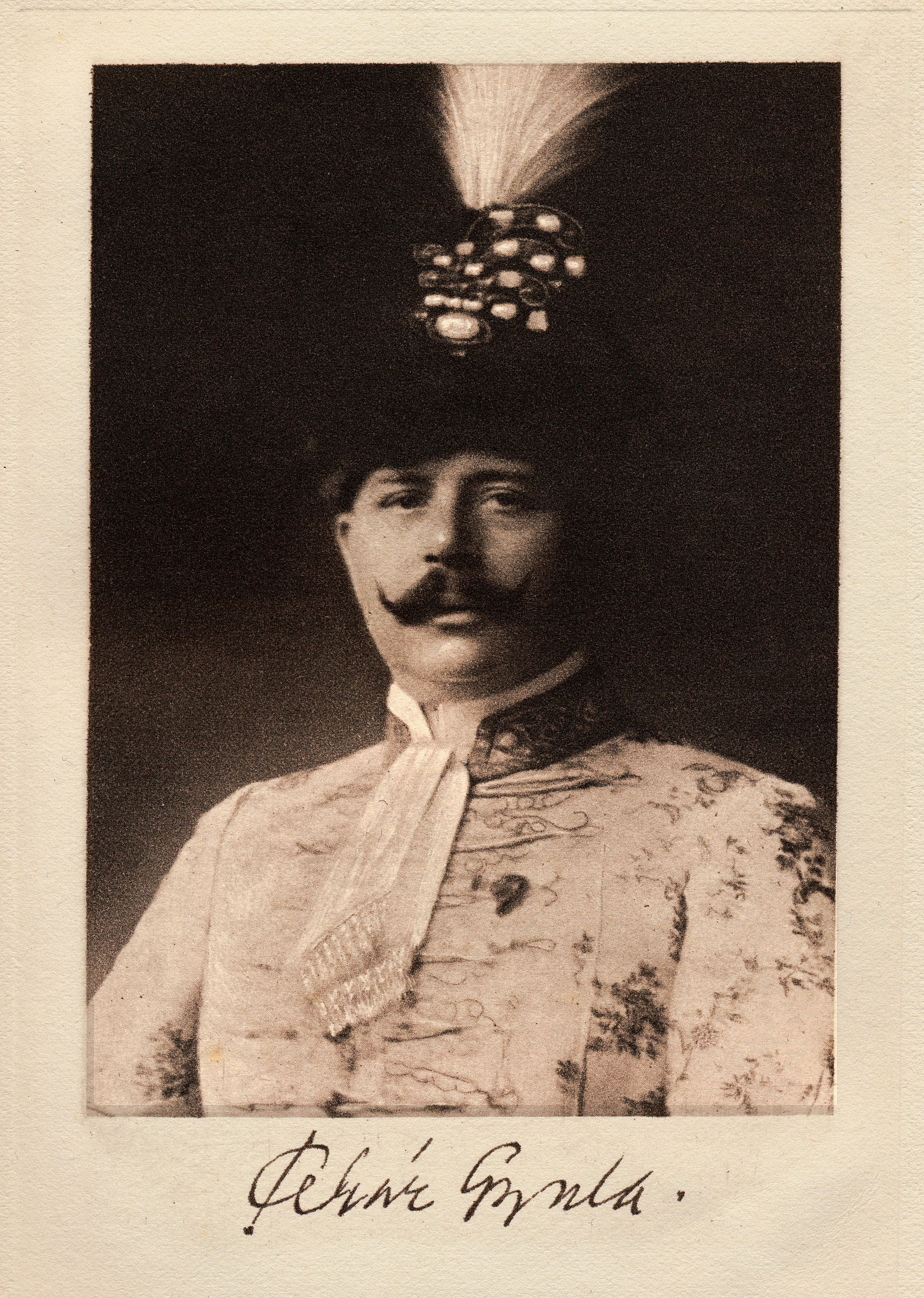 Gyula Pekár Hungarian writer